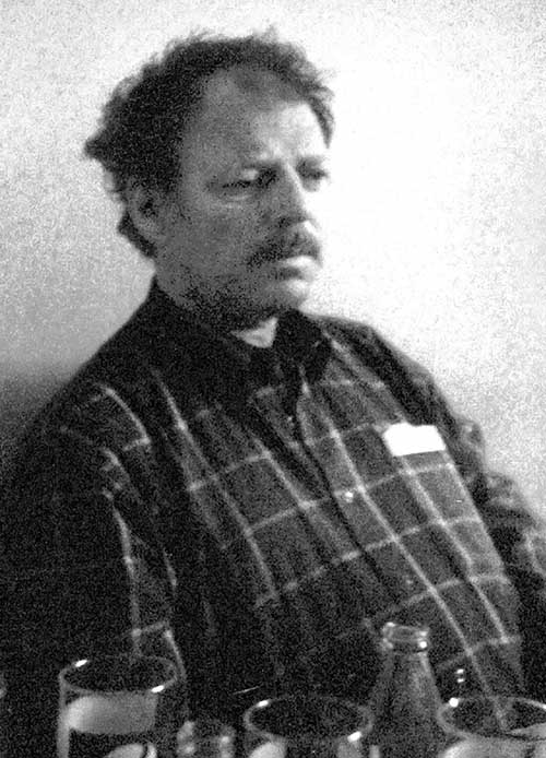 Portrait of Jurij Moskvitin at his residence in Olevano Romano ,Italy. “This is how I want to be remembered after my death”,- Jurij said and the photo was taken.